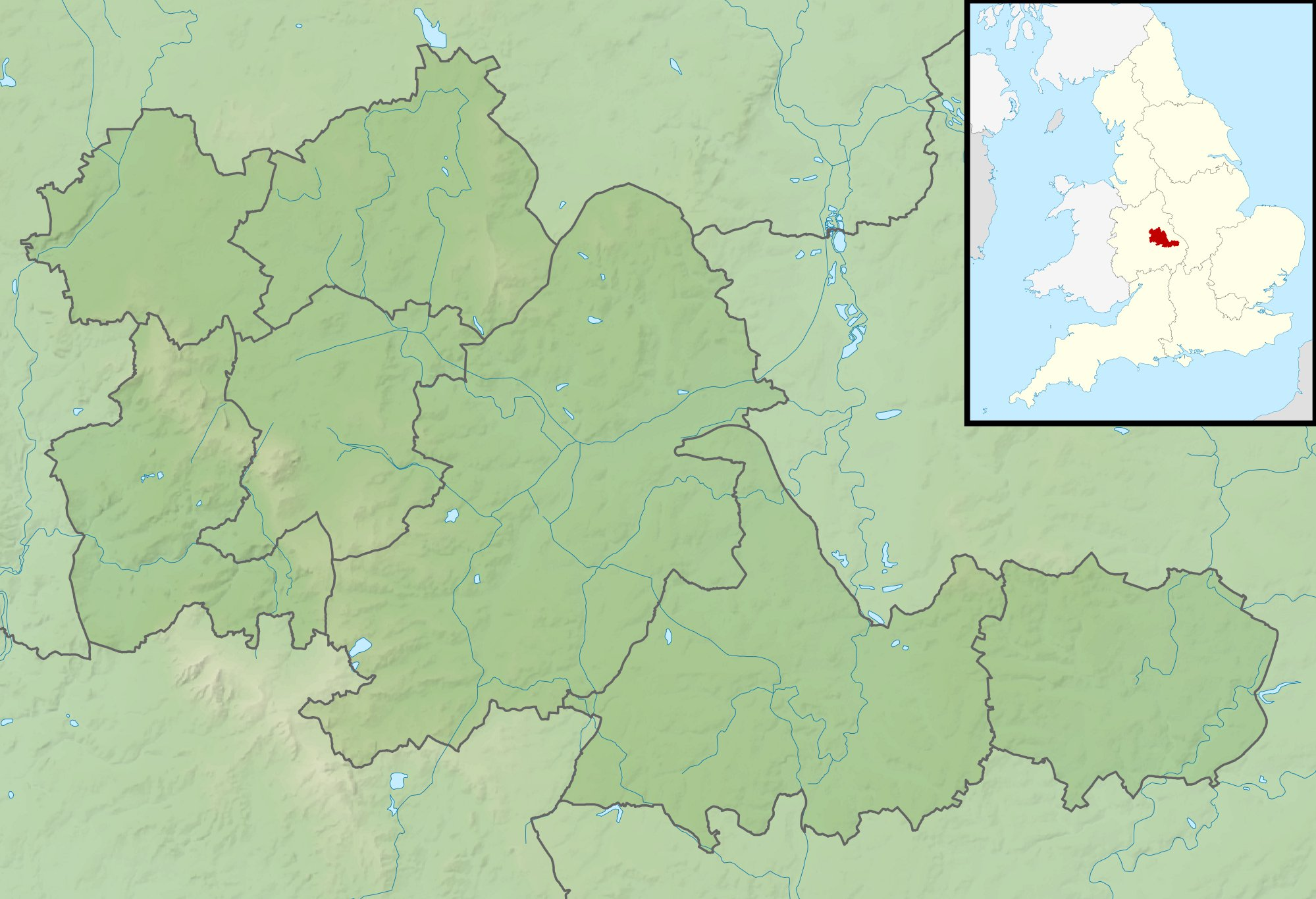 Relief map of the West Midlands, UK. Equirectangular map projection on WGS 84 datum, with N/S stretched 160% Geographic limits: West: 2.22W East: 1.40W North: 52.68N South: 52.33N